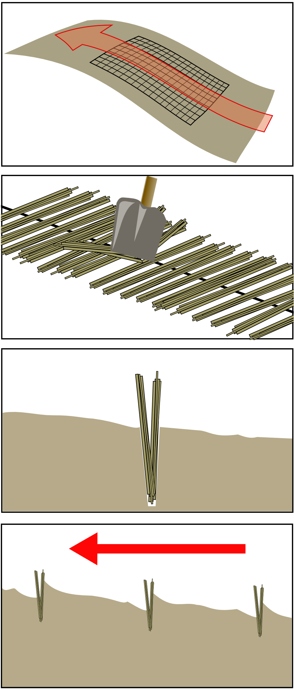 Straw grids 4 illustrations No-text